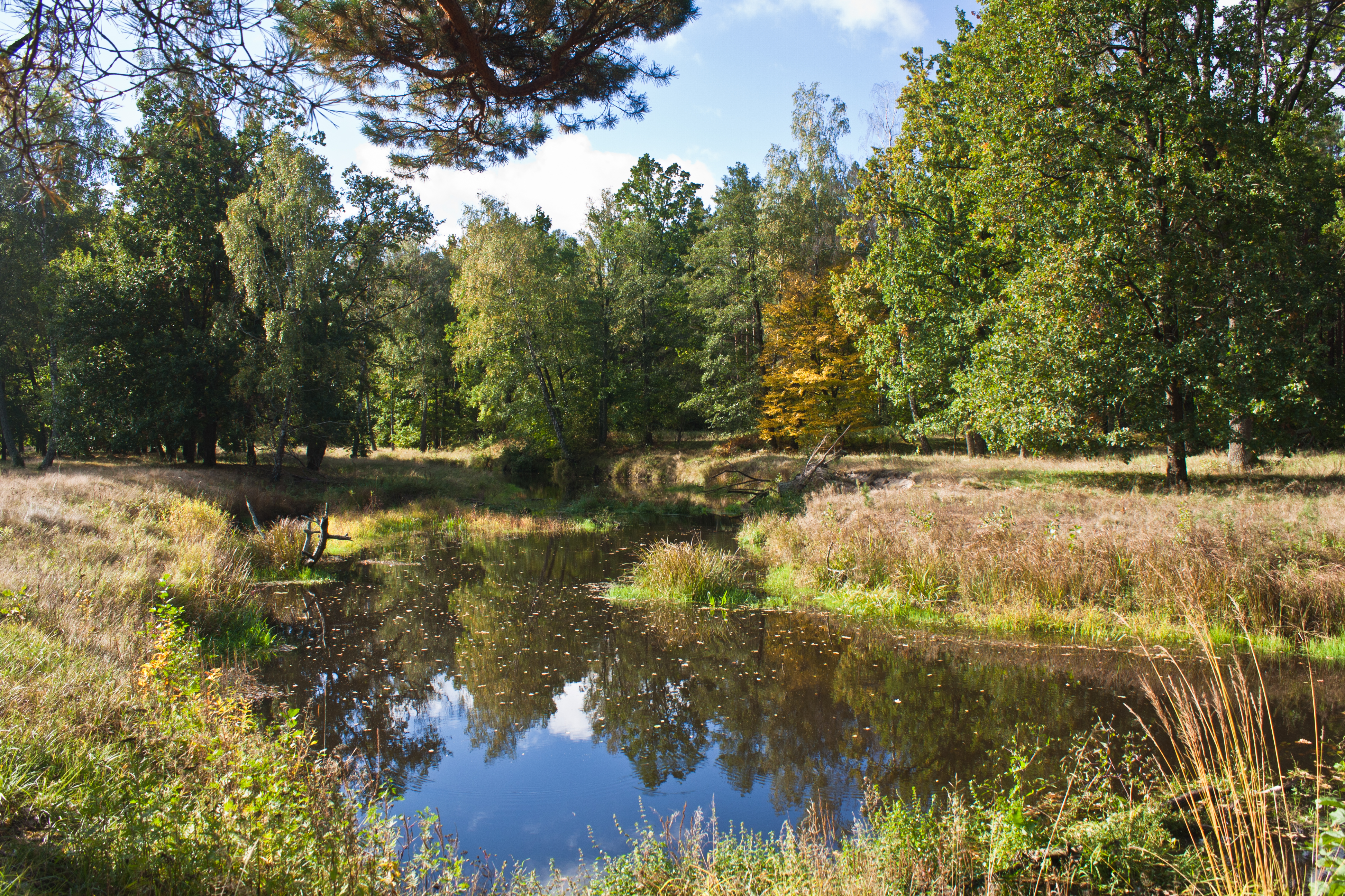 Ubort river near the city of Olevsk (Zhytomyr Oblast. Ukraine)